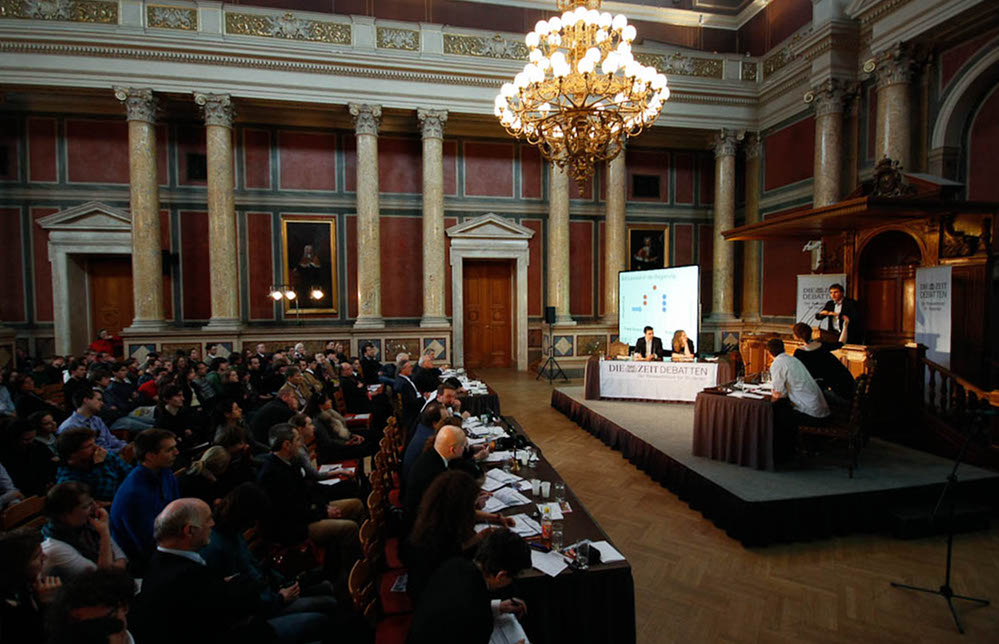 Final of the Zeit Debatte Vienna 2010 in the Festival Room of the University of Vienna. Zeit Debatten is the most prestigious debating tournament series in German. On the podium, the closing speaker of the opposition speaks, his teammates (a mixed team of debaters from Leipzig and Vienna) to the left. Below him is the government team from Tübingen, who went on to win the final. The adjudicators of the debate sit at the desk in the foreground, the honorary adjudicators (Georg Winckler, Erhard Busek, Claus Raidl, Thomas Mock und Claus Riedl) sit at the table in the background.